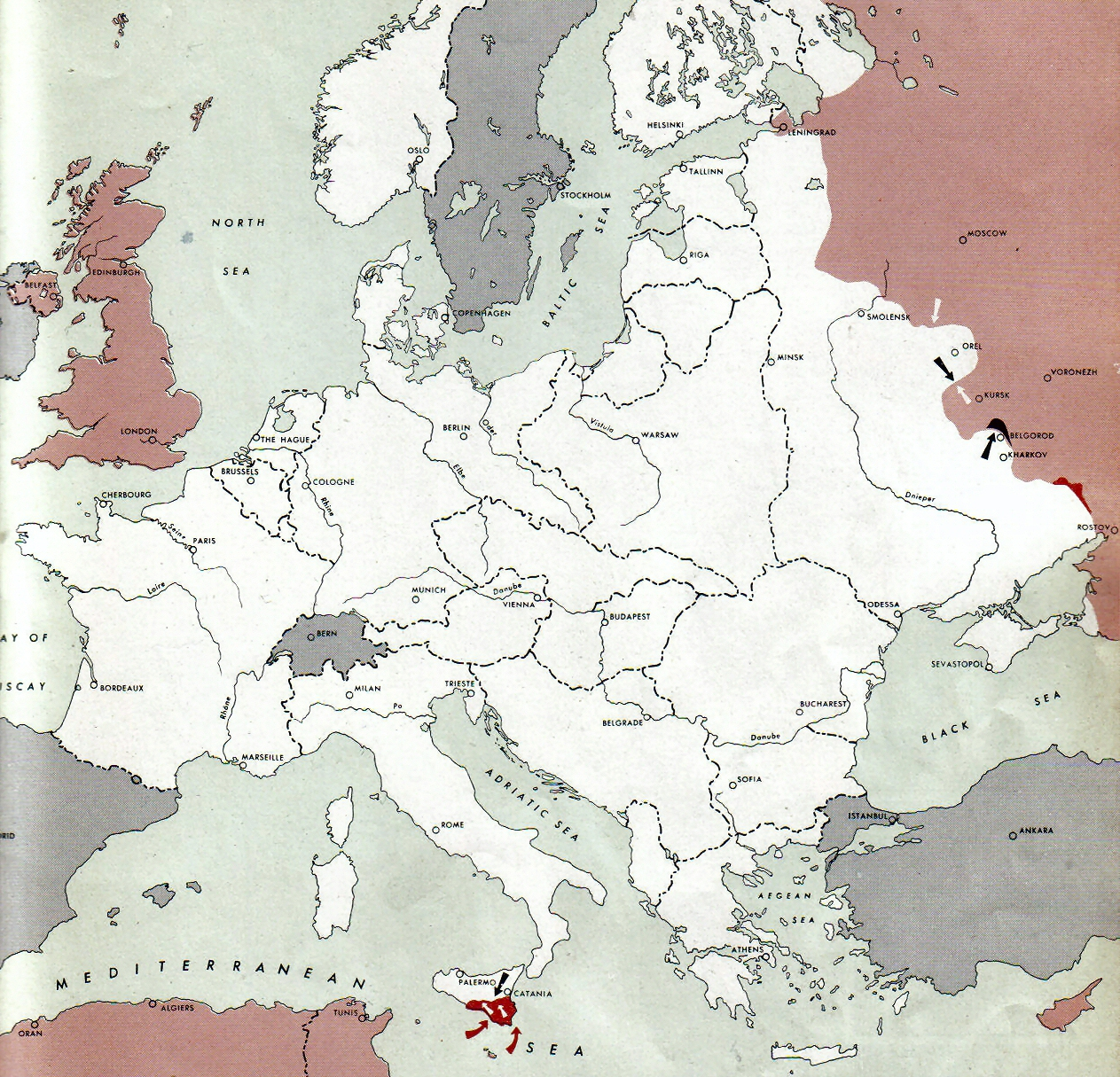 Map of the front against Germany: This map is taken from the source "Atlas of the World Battle Fronts in Semimonthly Phases to August 15th 1945: Supplement to The Biennial report of The Chief of Staff of the United States Army July 1, 1943 to June 30 1945 To the Secretary of War". (See Cover, Forward and Map details)